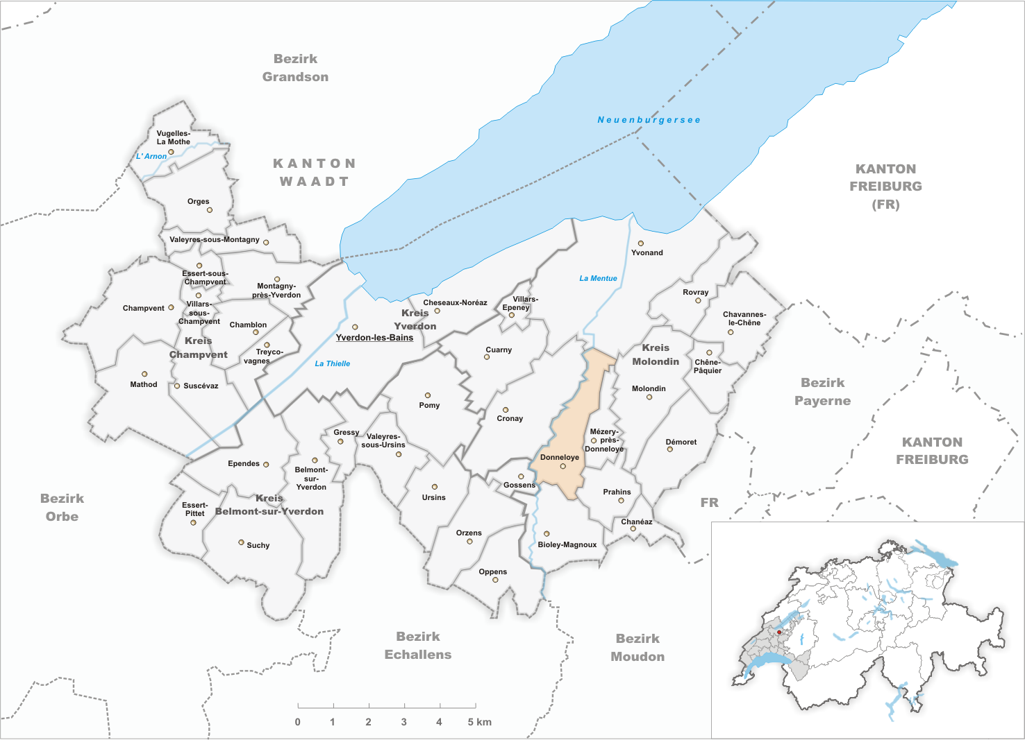 Municipality Donneloye